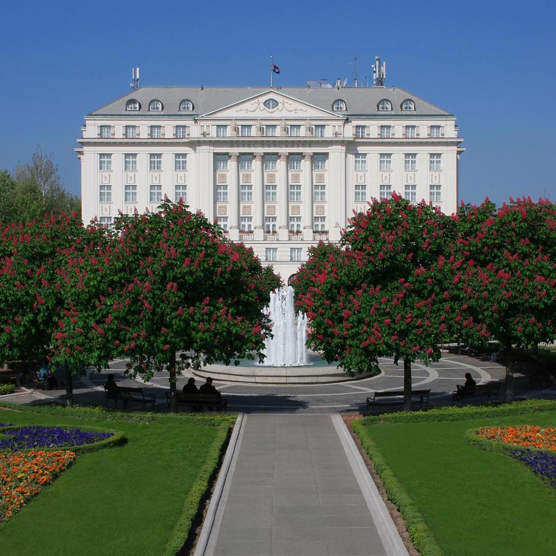 Esplanade Zagreb Hotel